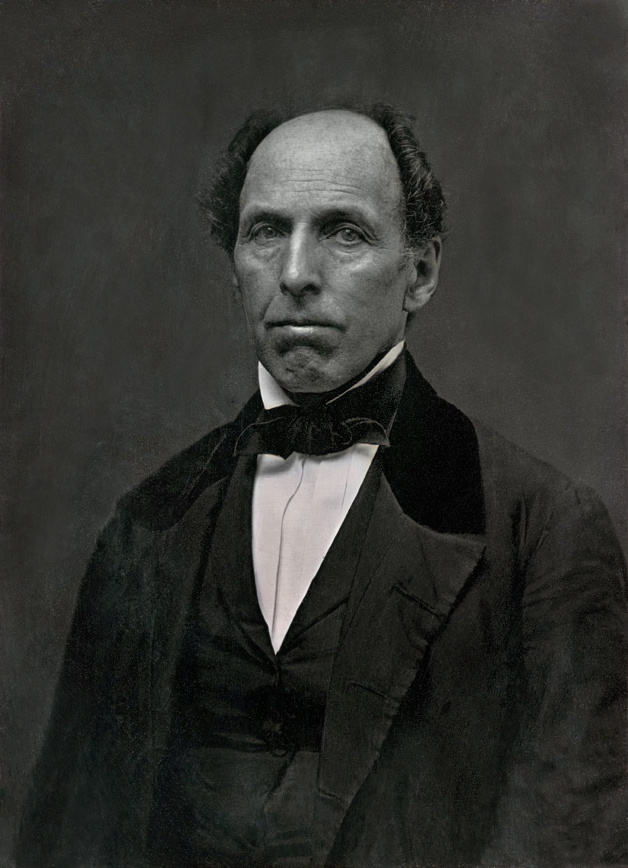 File name: 07_05_000011 Cab no.: Cab.G.3.26 Title: Francis Jackson Creator/Contributor: Created/Published: Date created: 1850 (approximate) Physical description: 1 photograph : quarter plate daguerreotype ; in case 12 x 9.5 cm. Genre: Daguerreotypes; Portraits Subjects: Jackson, Francis, 1789-1861 Notes: Location: Boston Public Library, Print Department Rights: No known restrictions